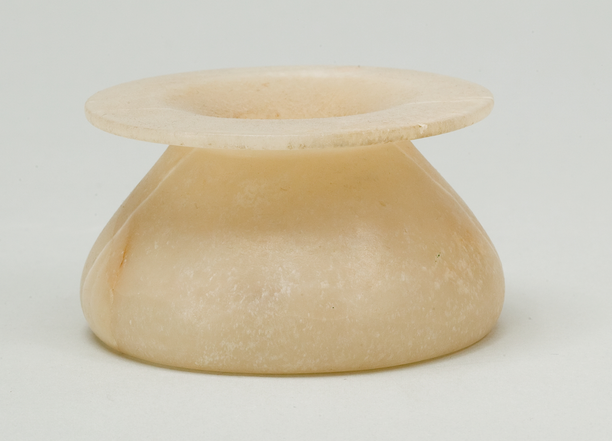 Cosmetic jar